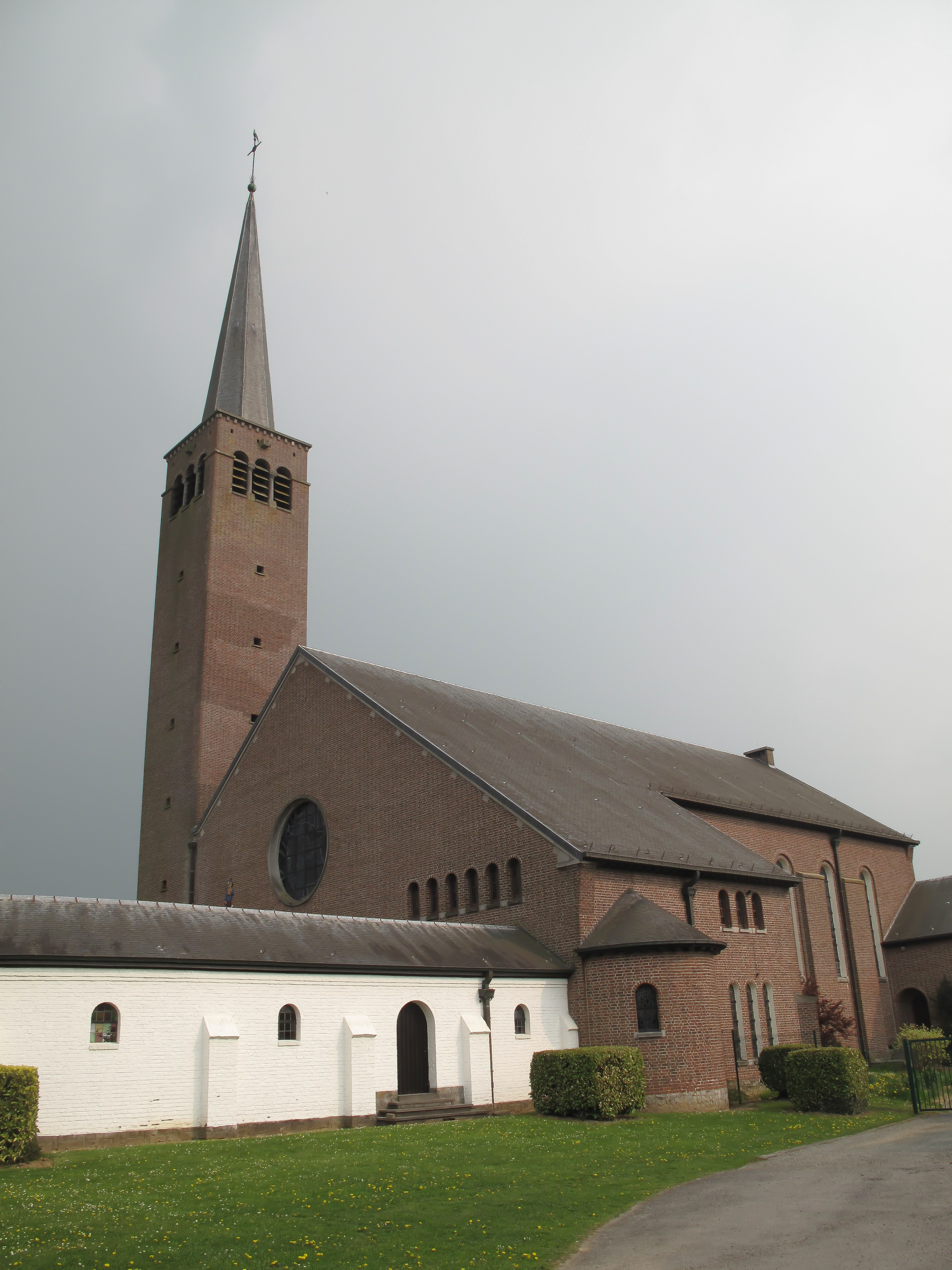 De Klijpe, church: de Onze Lieve Vrouwe van de Altijddurende Bijstandkerk